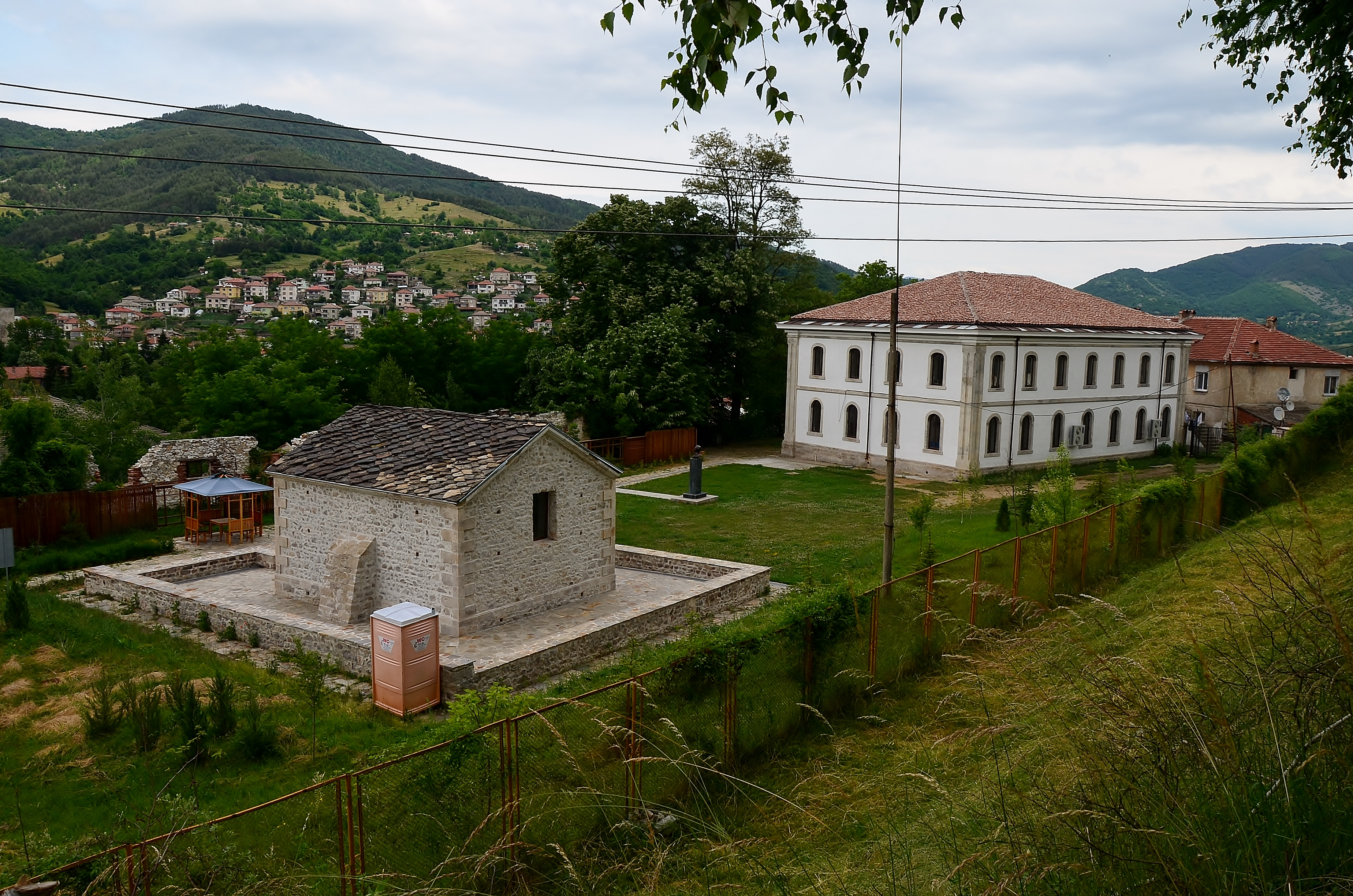 Old gunpowder magazine (left), bust of Sabahattin Ali (centre) and the History Museum in Ardino (right)